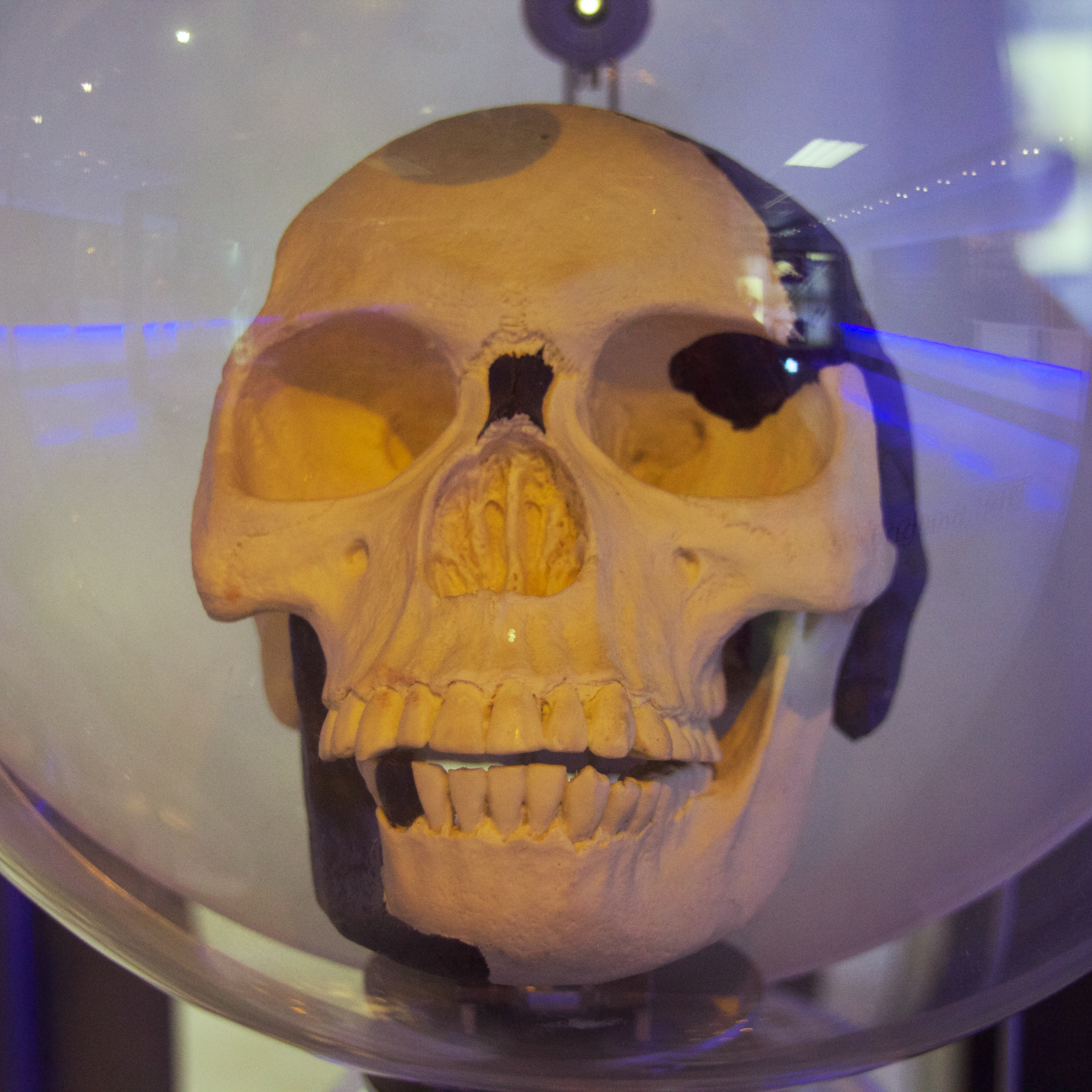 'Piltdown Man", fake skull Sussex, England, 1912